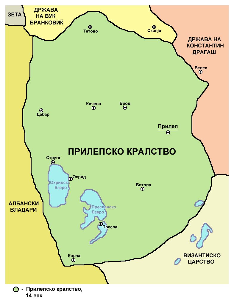 Kingdom of Prilep was one of the states that emerged from the collapse of the Serbian Empire in the 14th century.